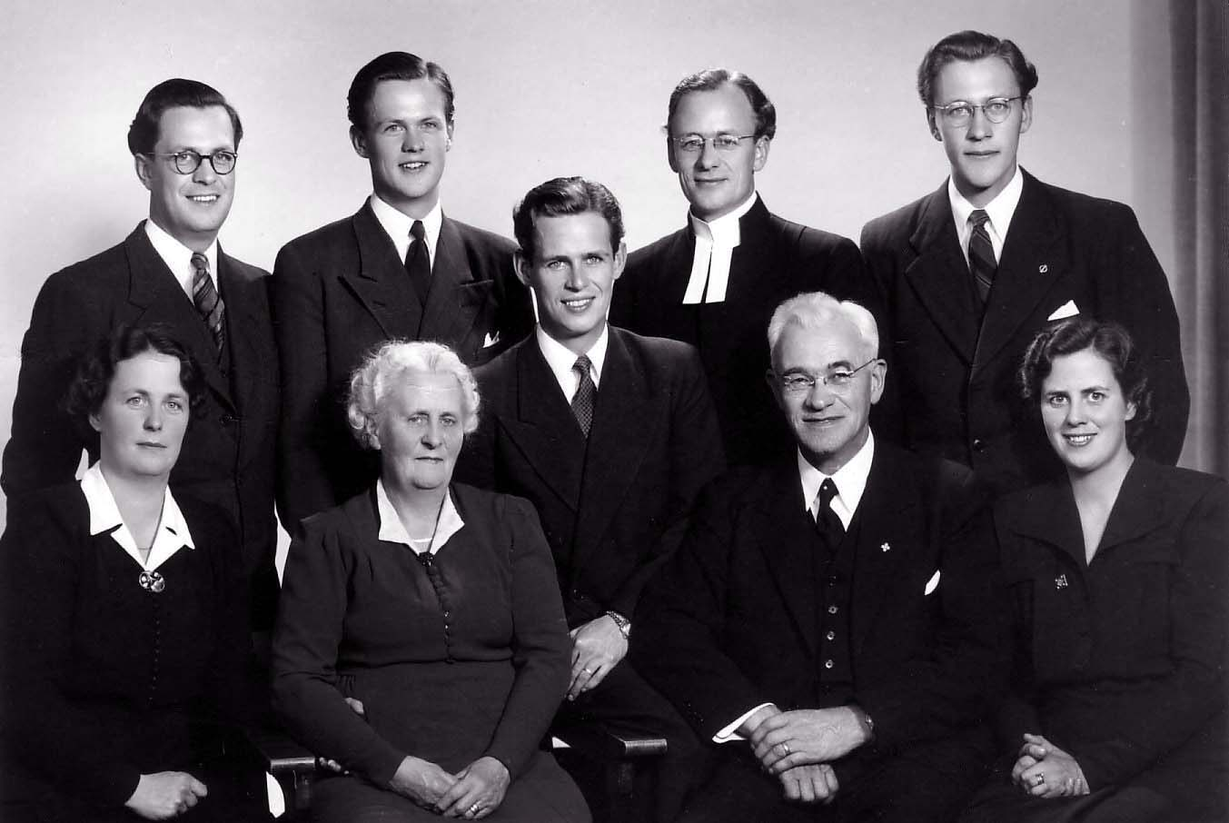 Family of 3 noted Swedish clerics, l-r: Margit Ridderstedt Bergman, C. Erik Ridderstedt, Bengt O. Ridderstedt, Hilda Mattsson Ridderstedt, Rev. Hans G. Ridderstedt, Rev. Matts J. Ridderstedt, Jacob Ridderstedt, Rev. Dr. Lars O. J. Ridderstedt & Bengta Ridderstedt Bolander, as released by image creator FamSACPlace: Probably Borlänge, Sweden